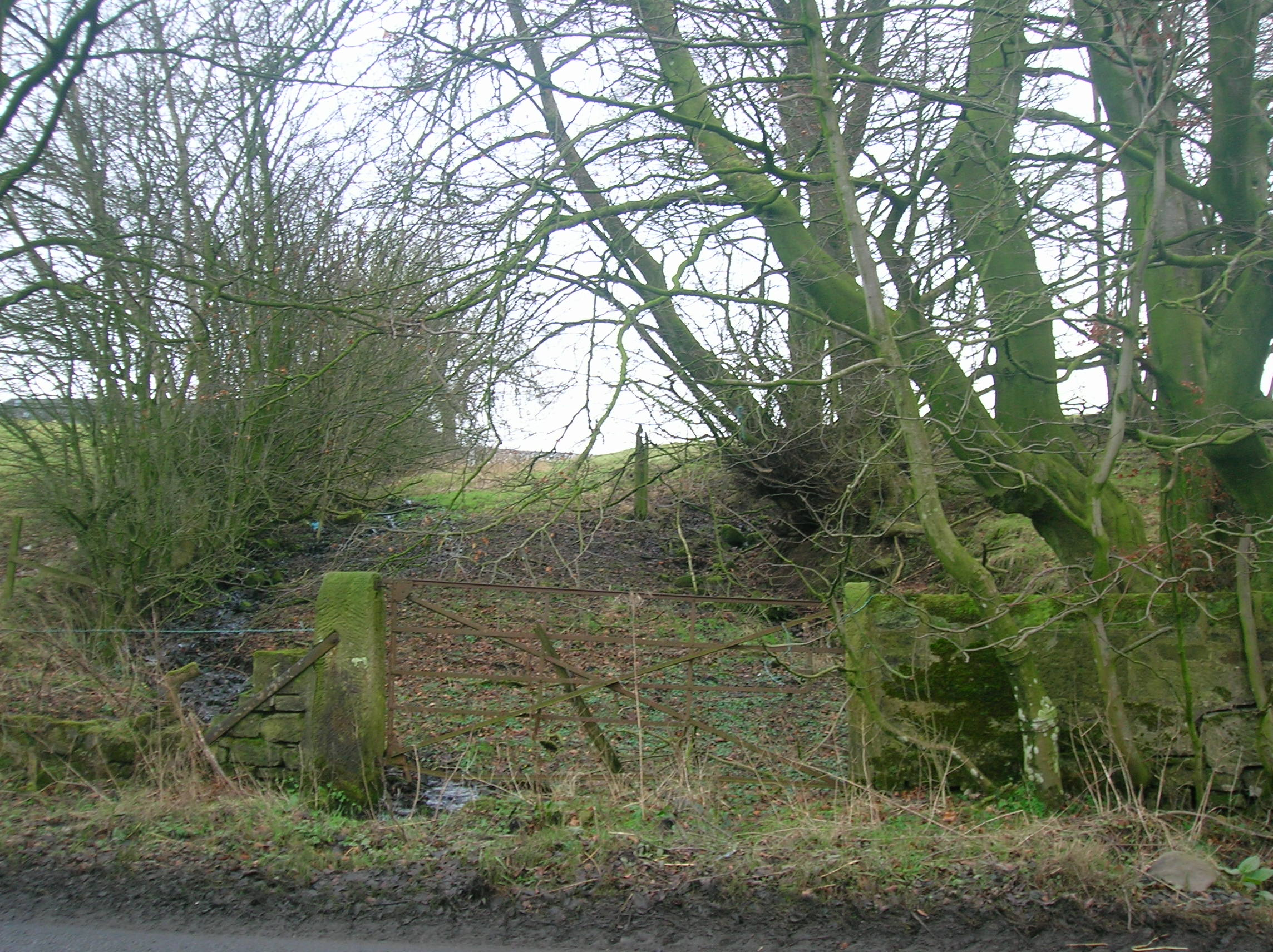 The old entrance to the driveway to Lochridge House running off the Stewarton to Cunninghamhead road near Peter's brae. East Ayrshire 2007.